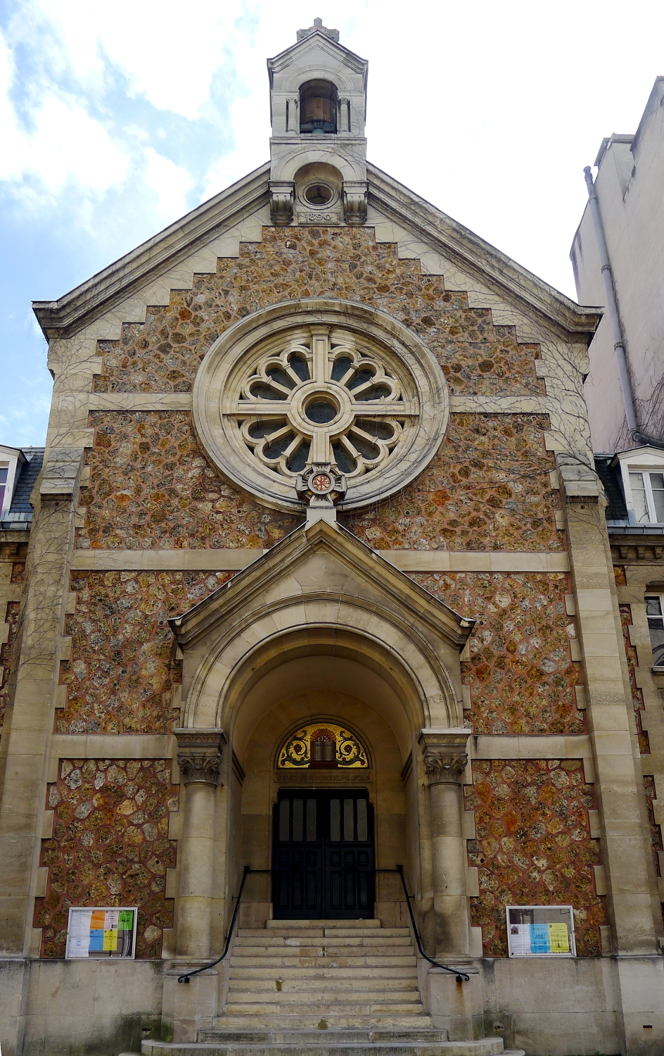 Rue Cortambert (n°19) - Paris